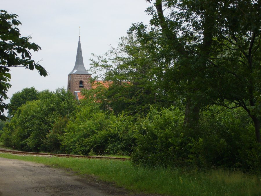 Old church of ex-village of Heveskes, currently the industrial area of Delfzijl